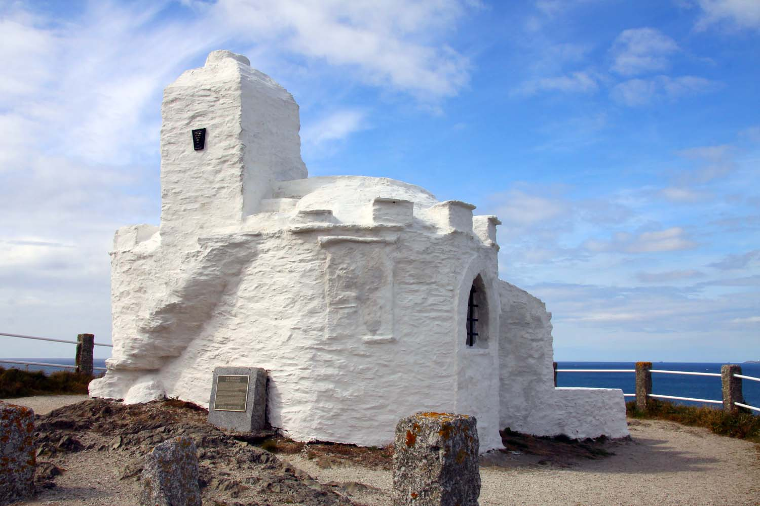 The Huer's Hut on King Edward Crescent